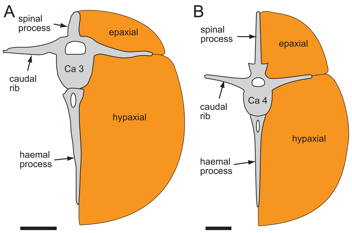 Figure 35: Schematic transverse section through the anterior epaxial and hypaxial muscular regions of the ornithopod tail. (A) Diluvicursor pickeringi gen. et sp. nov. holotype (NMV P221080), designated Ca 3 (see also Fig. 9); and (B) Hypsilophodon foxii, Ca 4 (NHMUK R196; following Galton, 1974, figs. 28–29). Sections normalised for total vertebral depth. Abbreviations: Ca #, caudal vertebra and position. Scale bars equal 10 mm.